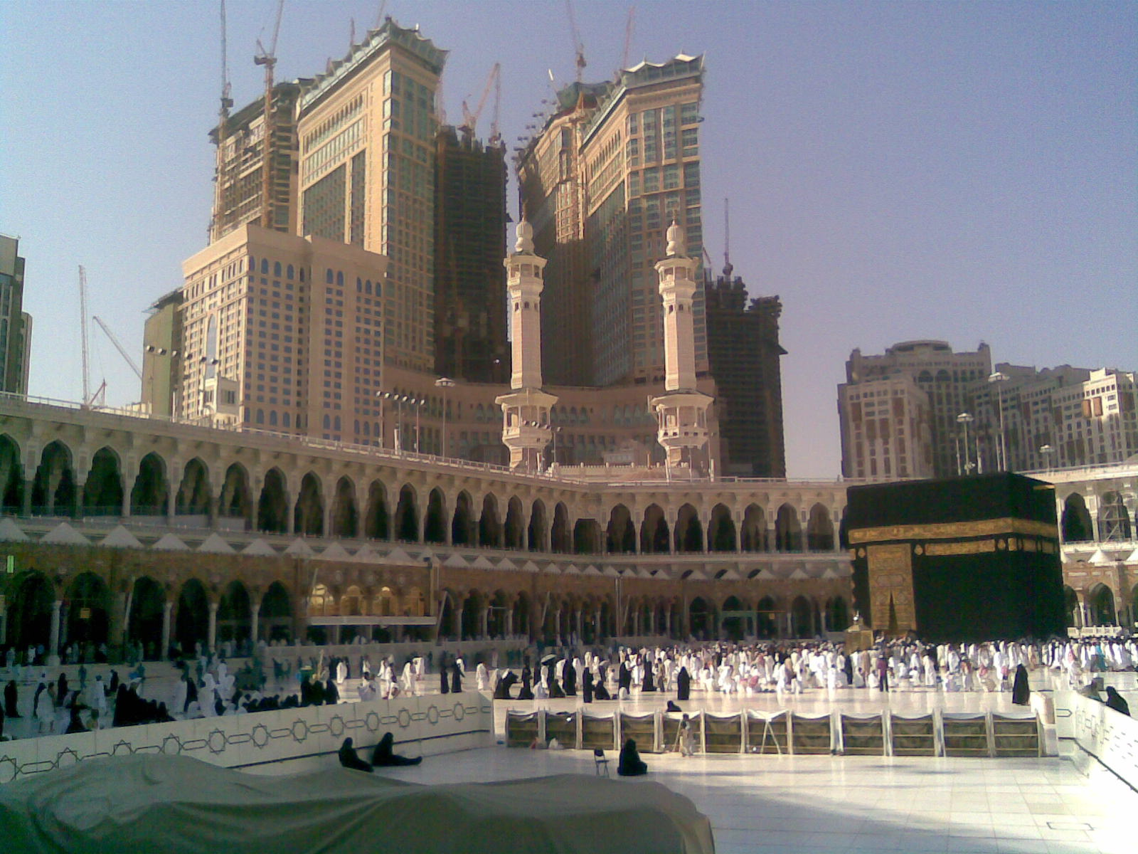 Abraj Al Bait Towers